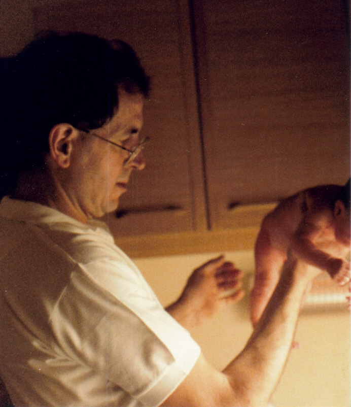 Dr. Walter Müller performing a well-baby examination of a six-day old American baby (child of a US Army family) born at his group practice clinic in Schwäbisch Hall, Germany in 1989.